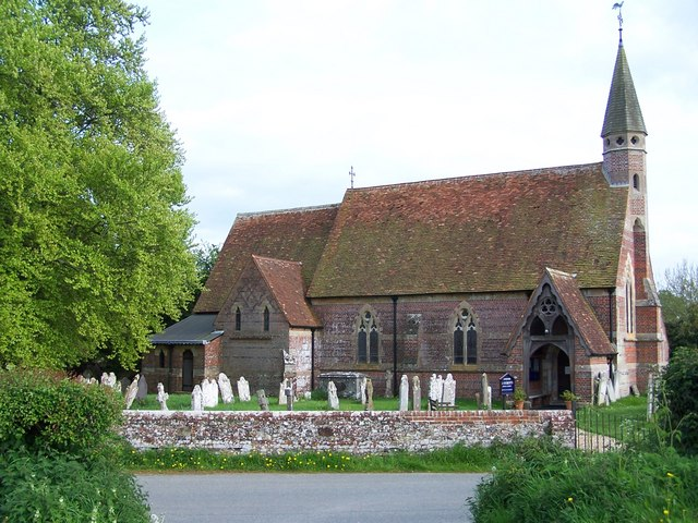 St Andrews Church, Landford Viewed from the car park